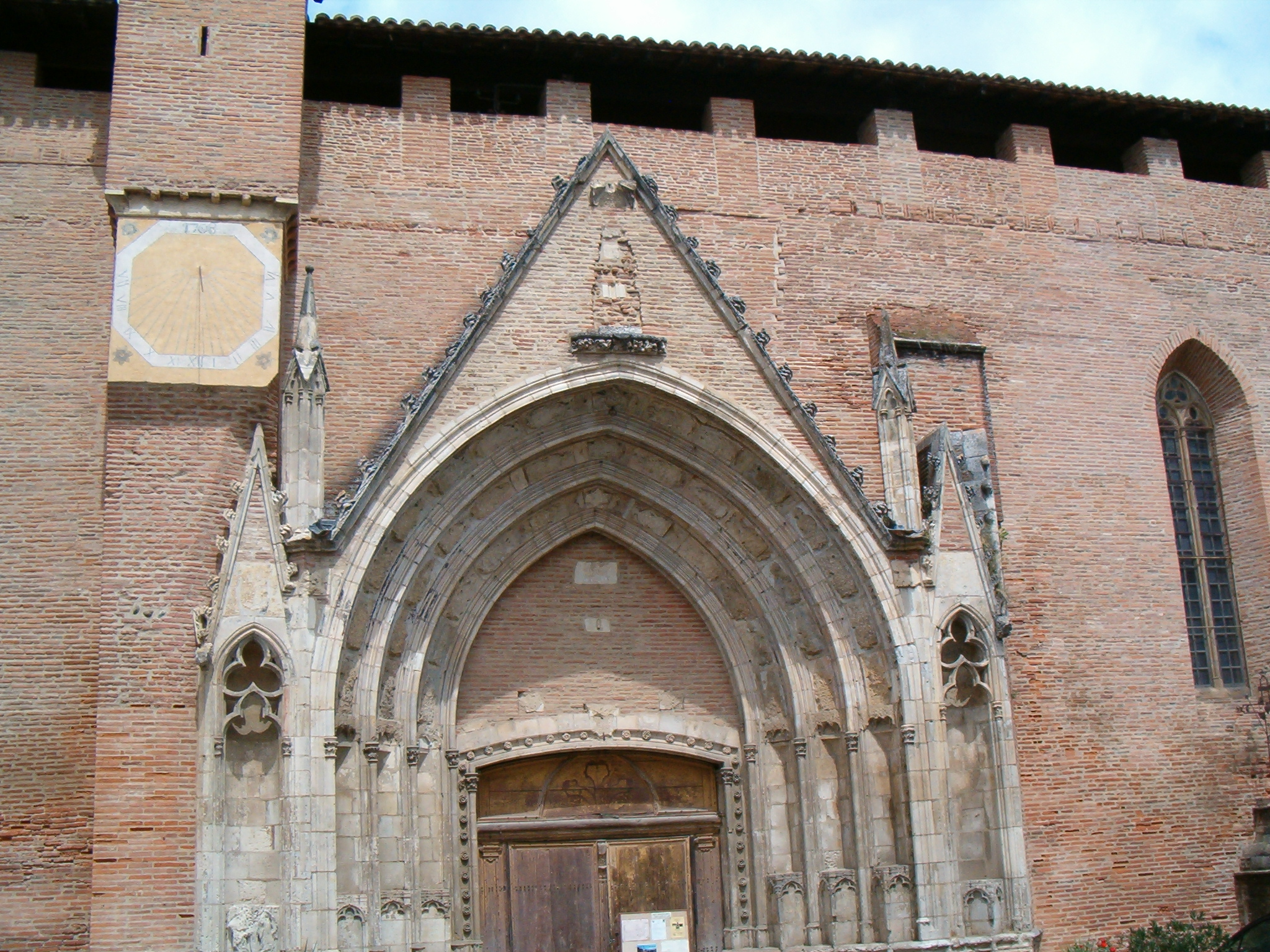 entry and sundial of cathédrale de Rieux-Volvestre